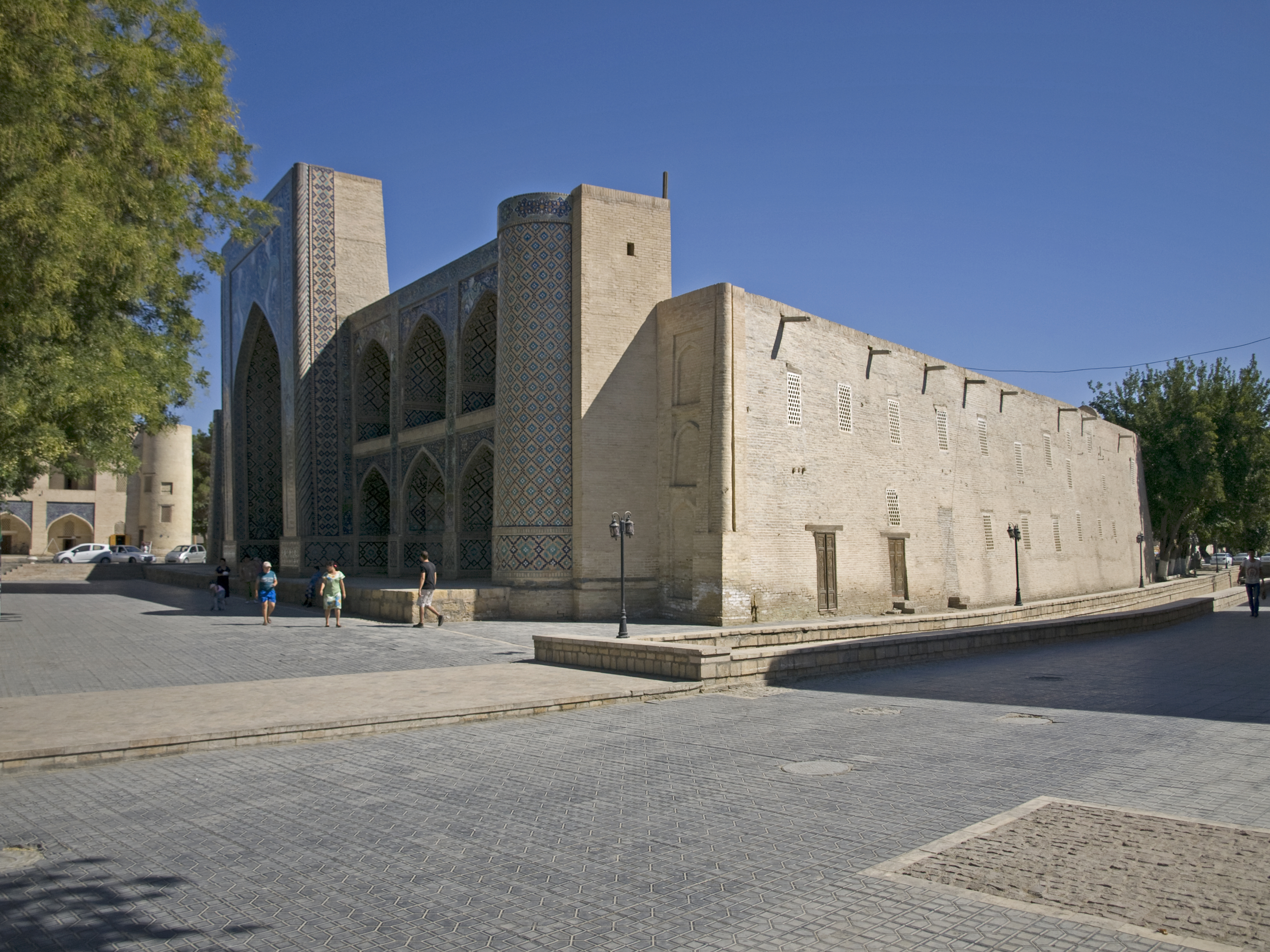 Divanbegi Madrassah, Bukhara